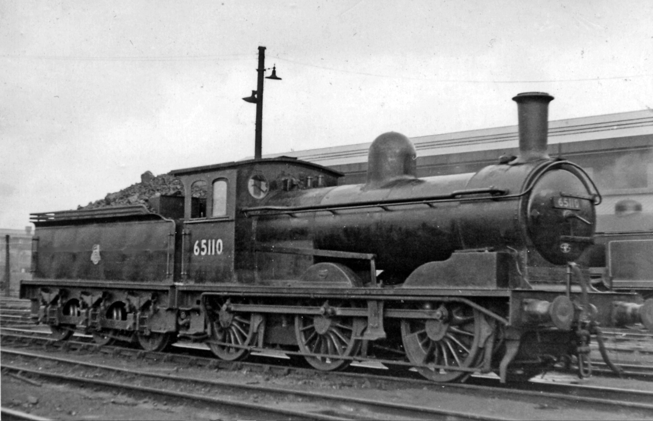 An ex-NE Worsdell J21 0-6-0 at Heaton Locomotive Depot. View eastward in the Locomotive Yard; one of a large class of useful 0-6-0's, J21 No. 65110 seems to be in ex-Works condition. Heaton was a large Depot serving principally the extensive Heaton marshalling yards and freight traffic but also a considerable proportion of main line and local passenger traffic from Newcastle. Coded 52B in the NE Region (Newcastle District) under BR, in 1954 it had an allocation of 95 locomotives, comprising:- 16 4-6-2, 17 2-6-2, 1 4-4-0, 14 2-6-0 (9 LNE + 5 LMS-type), 14 0-6-0, 12 2-6-2T, 1 0-6-2T, 18 0-6-0T and 2 unique Bo-Bo electric shunters, used at the Riverside Yard.